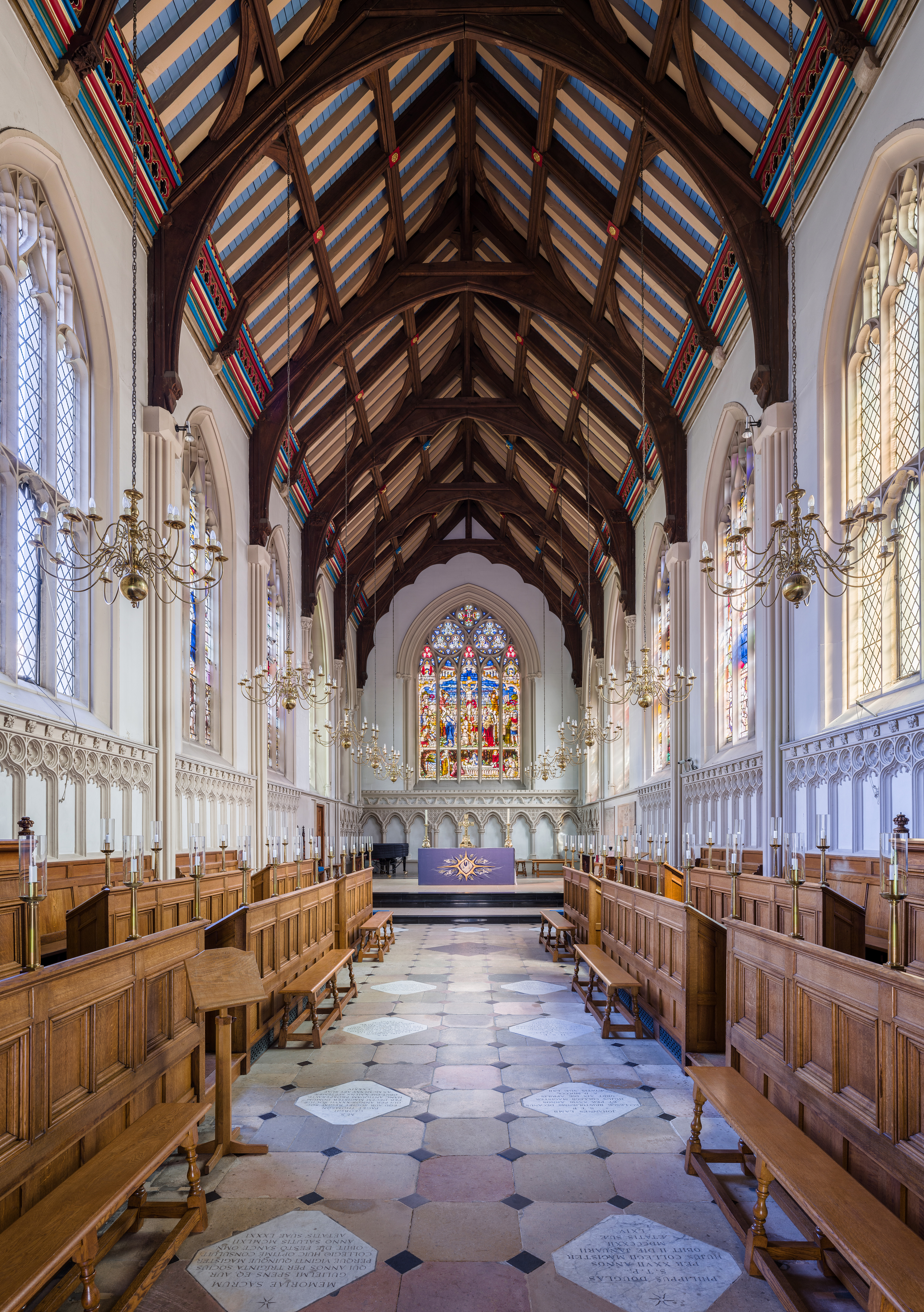 The chapel of Corpus Christi College, Cambridge, England.